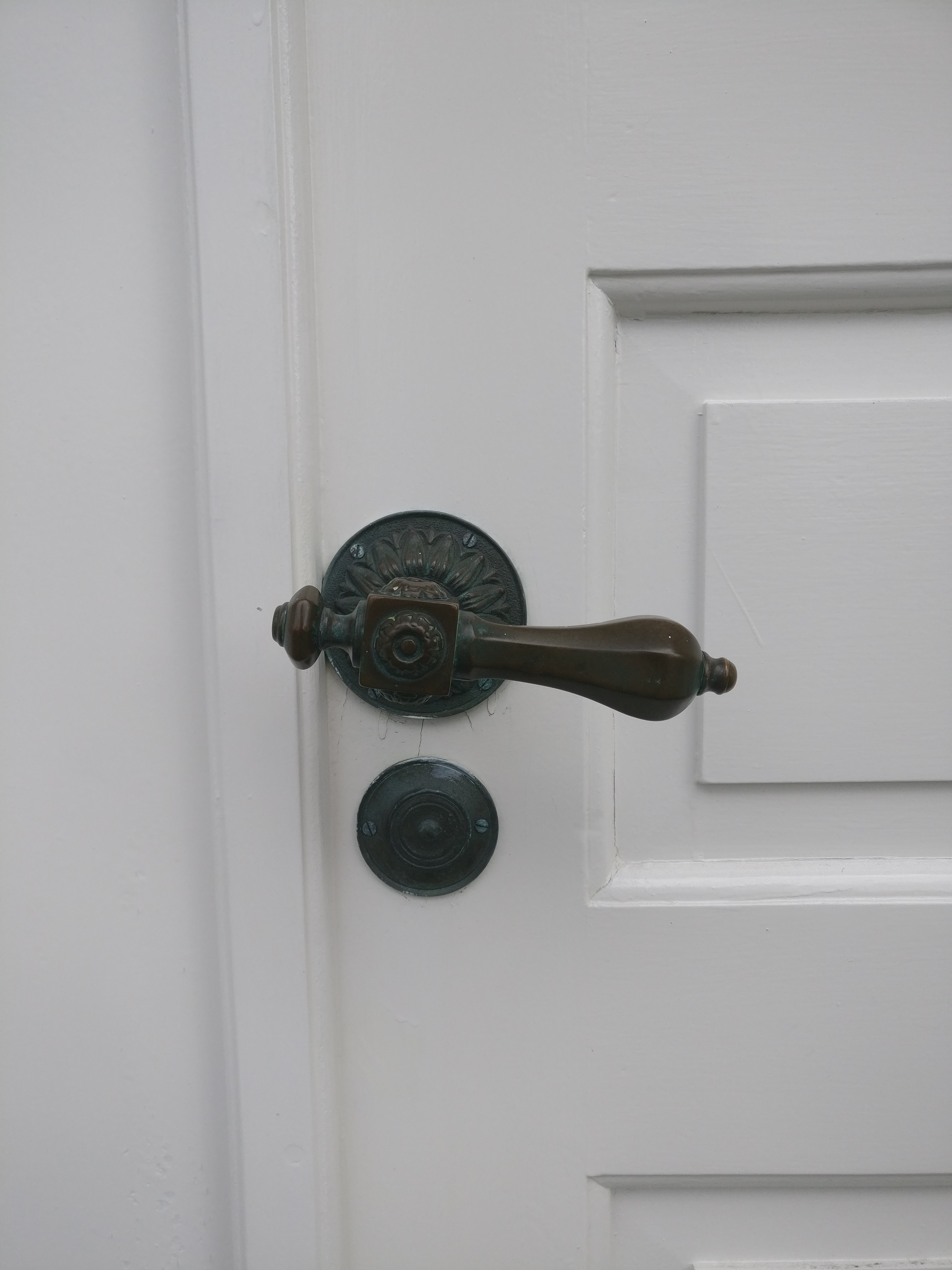 Door knob of Höfði